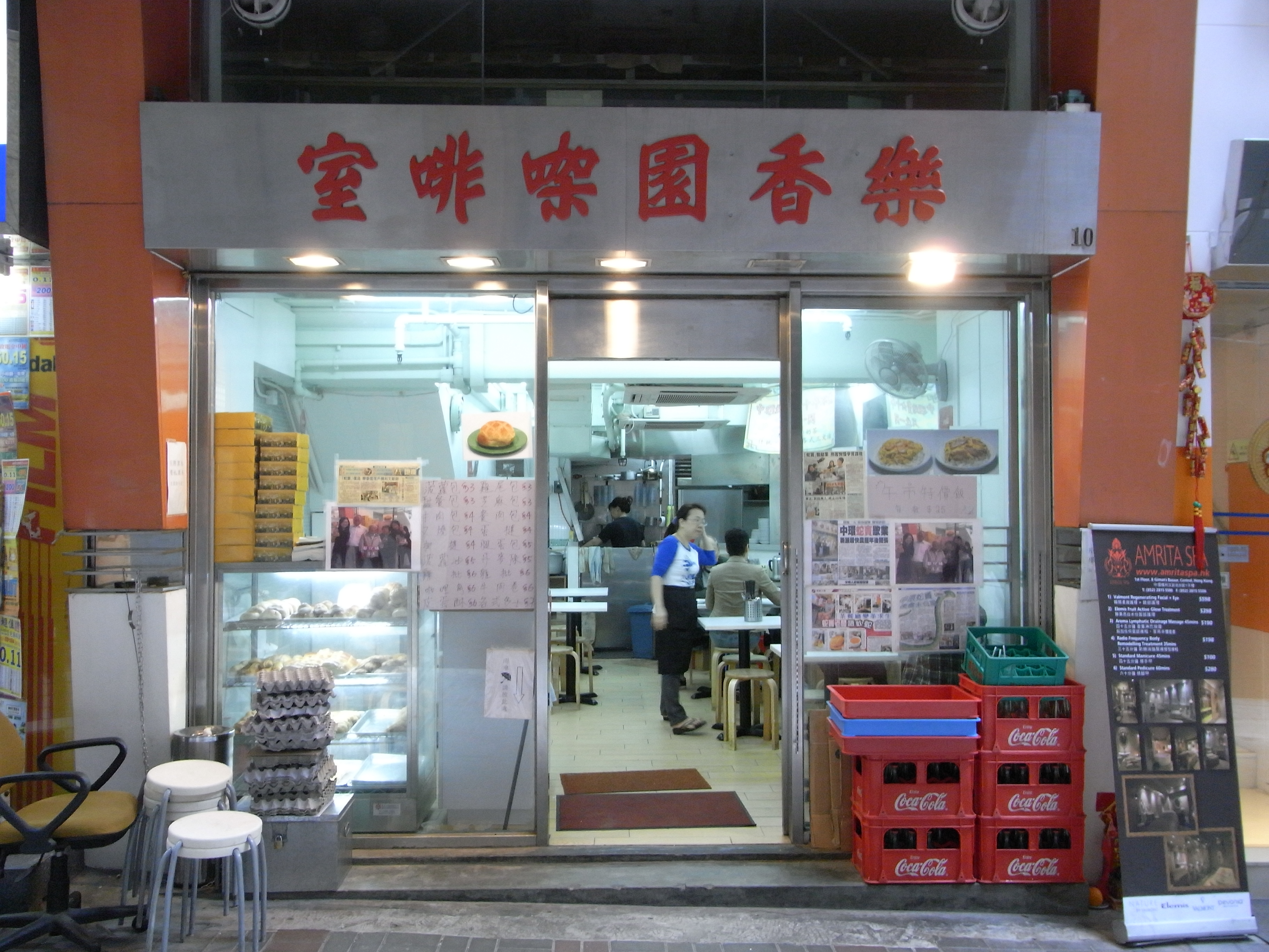 中環機利文新街 樂香園咖啡室